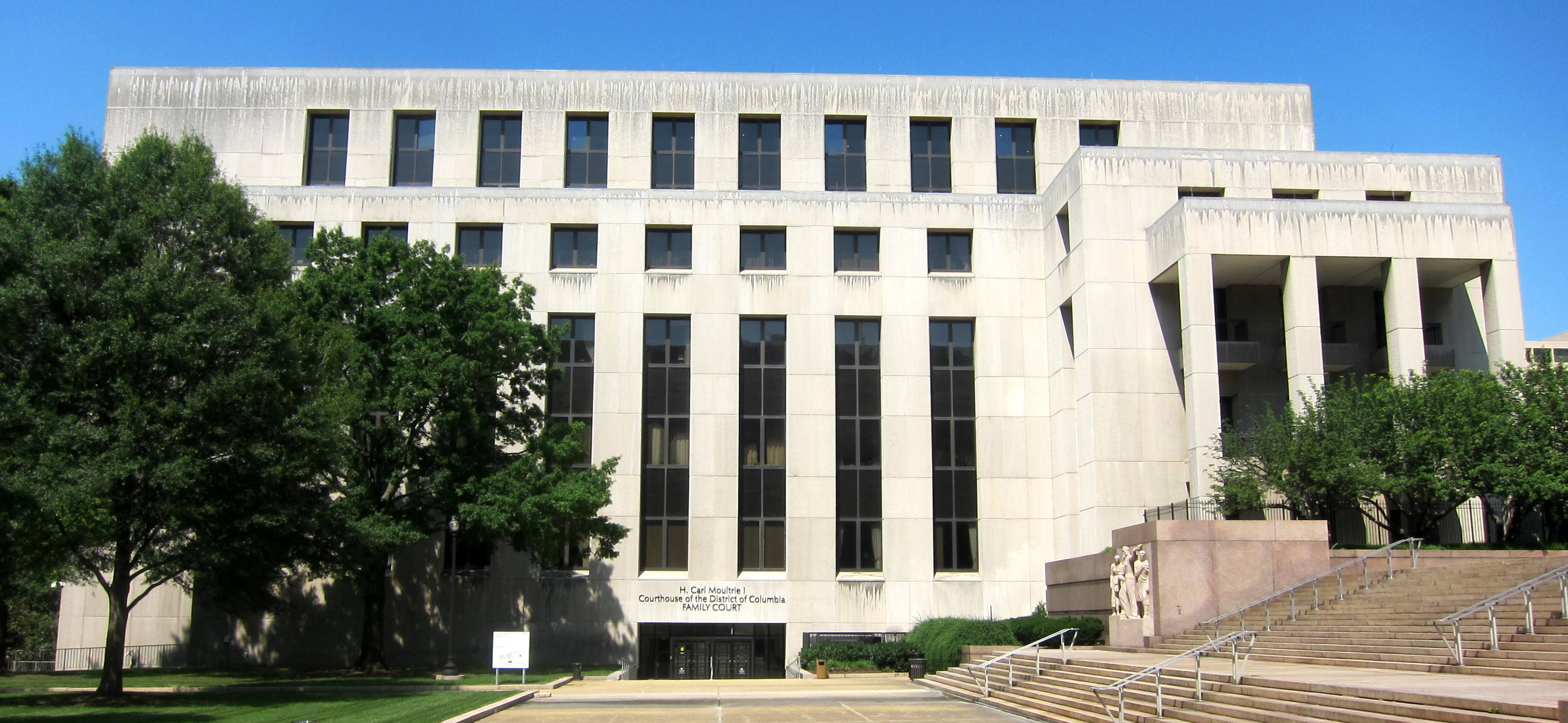 The H. Carl Moultrie Courthouse located at 500 Indiana Avenue, N.W., in the Judiciary Square neighborhood of Washington, D.C. The seven-story, limestone modernist courthouse was built in 1976 to the designs of architectural firm Hellmuth, Obata and Kassabaum. It is home to the Superior Court of the District of Columbia. The bas-relief panel on the terrace wall of the steps is Columbia (1942) by sculptor John Gregory.